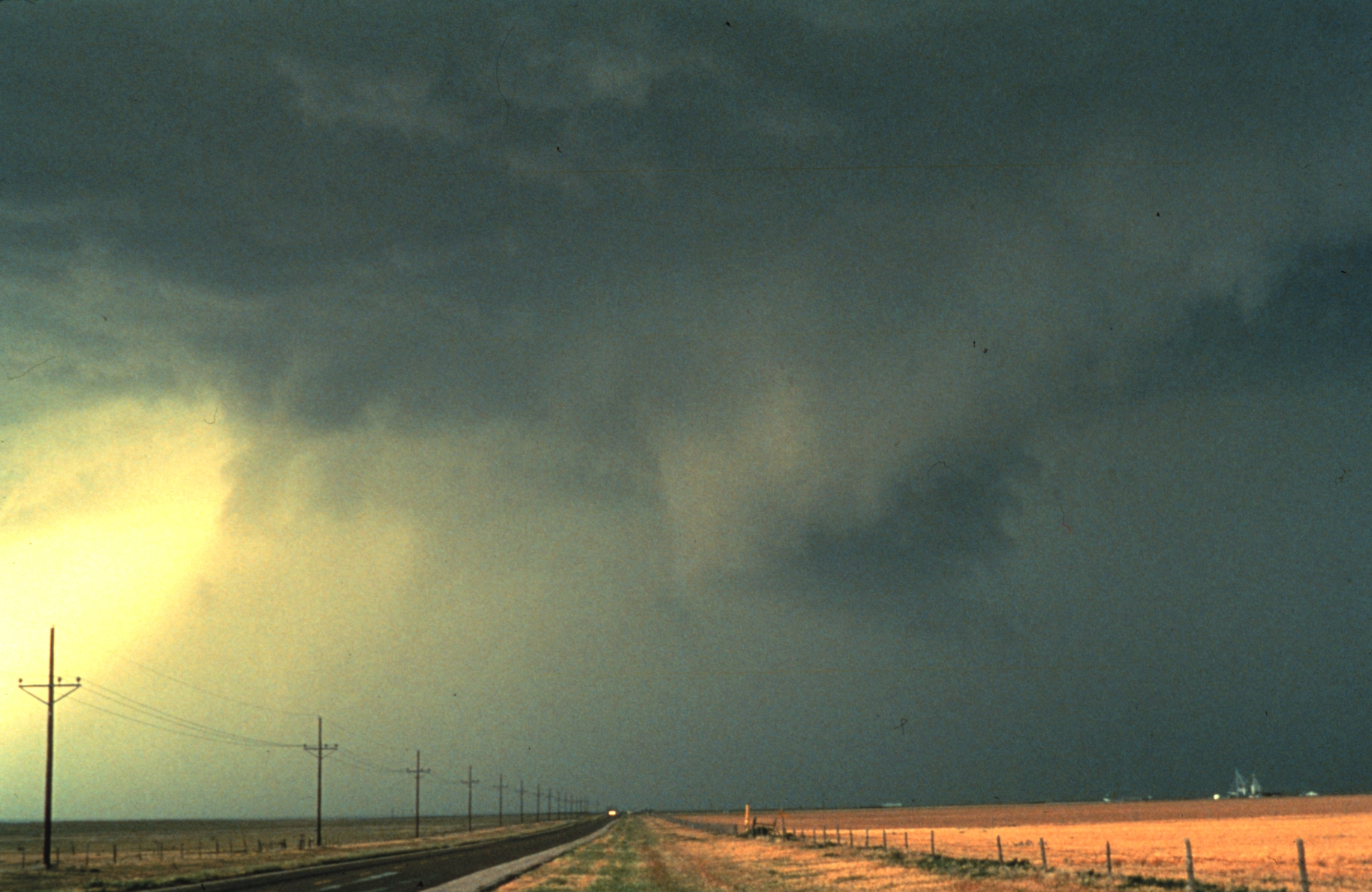 Thunderstorm out flow from storm core shows up as sheets of wind driven rain spreading from right to left in 1982 photo showing and shelf cloud (a variety of the arcus cloud)